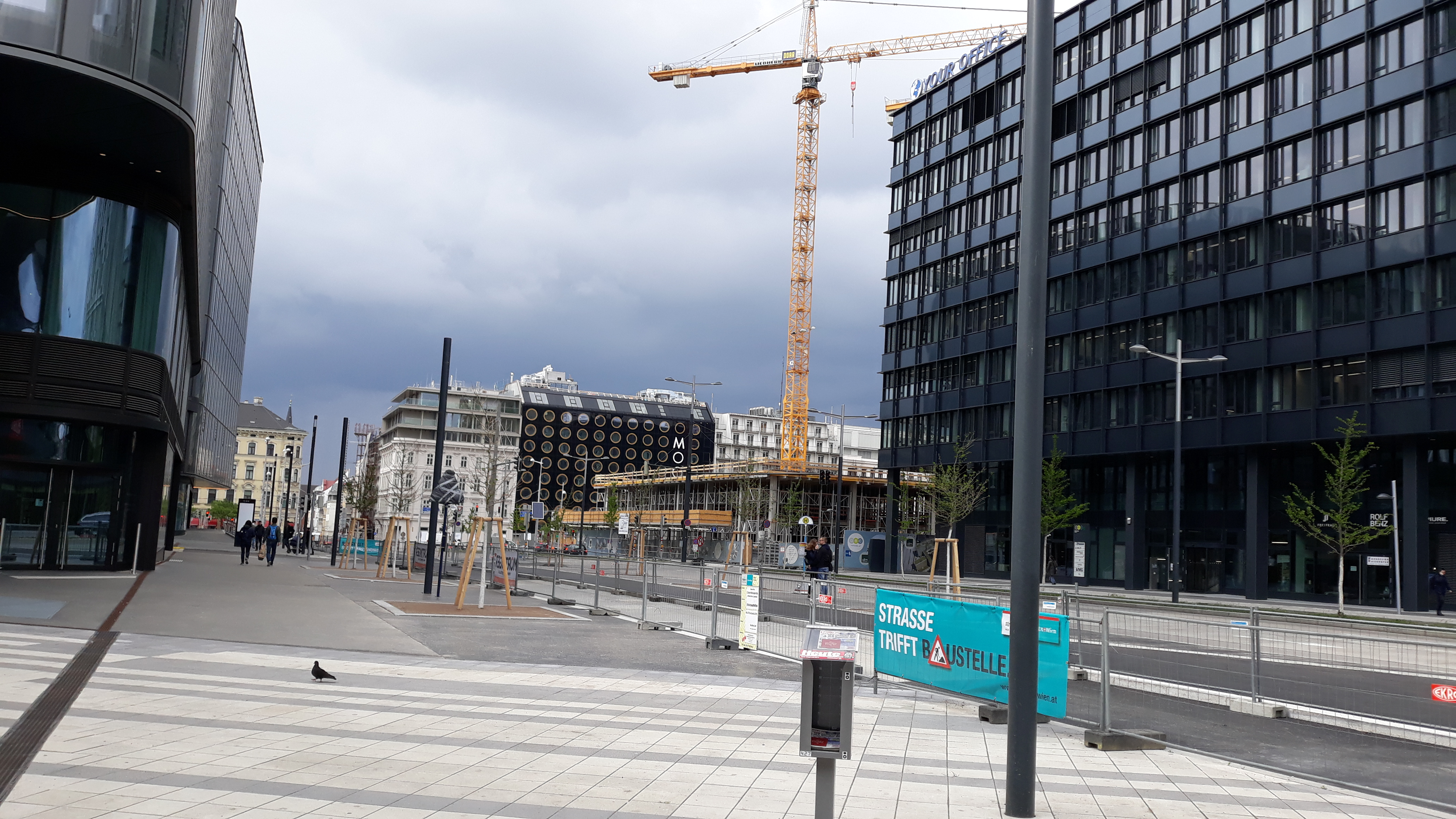 Karl-Popper-Strasse, Vienna